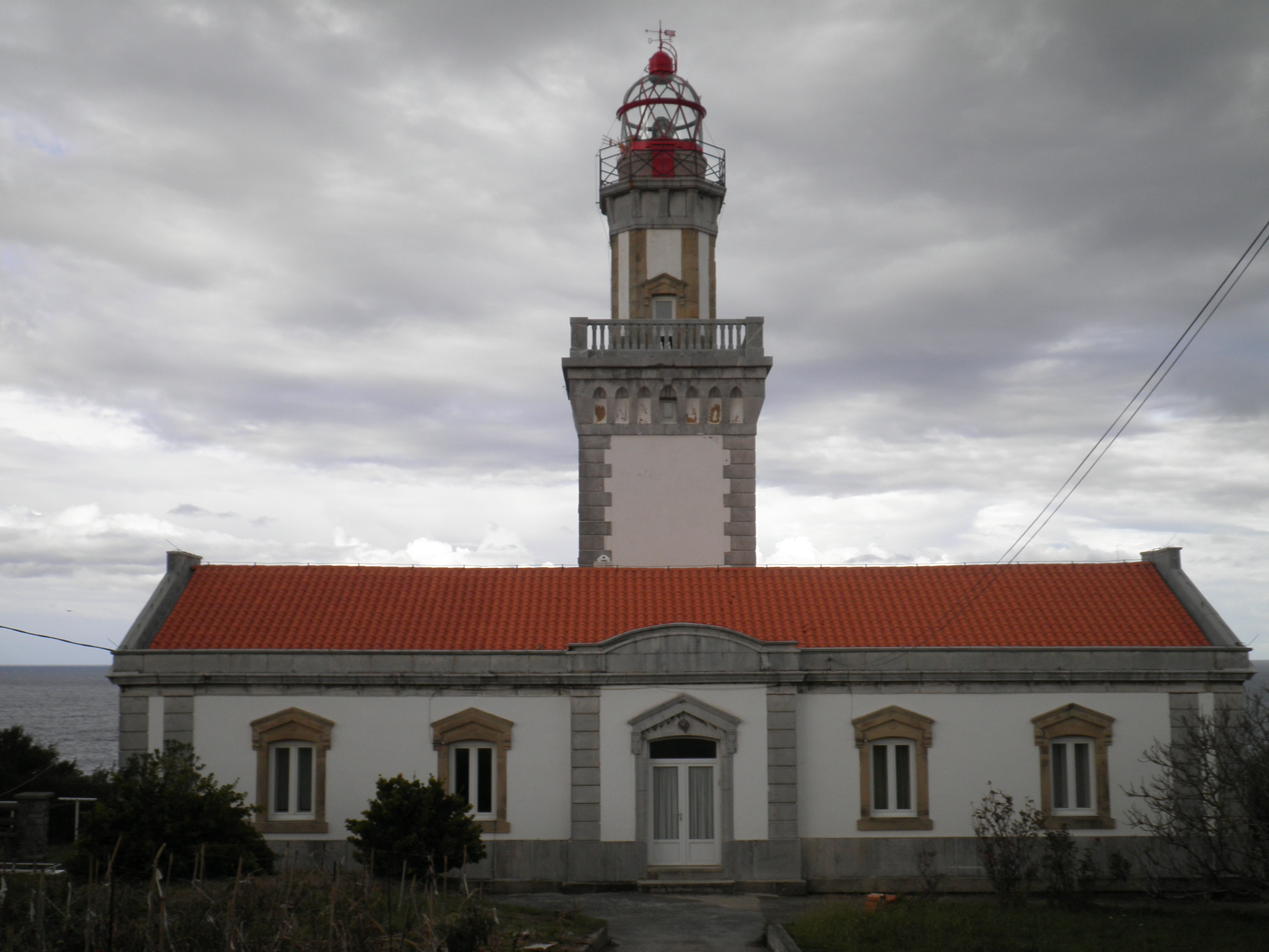 Higer lighthouse, Hondarribia, Basque Country.